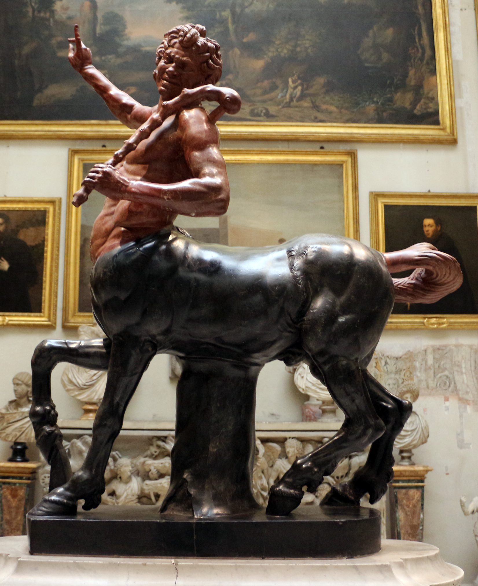 Sculptures in the Galleria Doria Pamphilj (Rome)